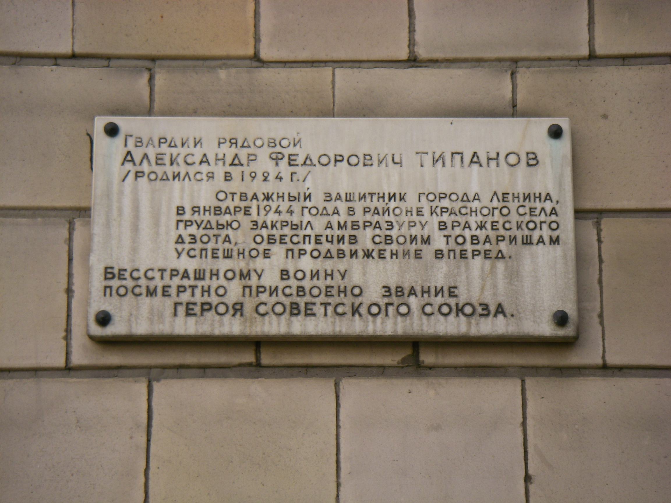 Commemorative plaque on Tipanova street